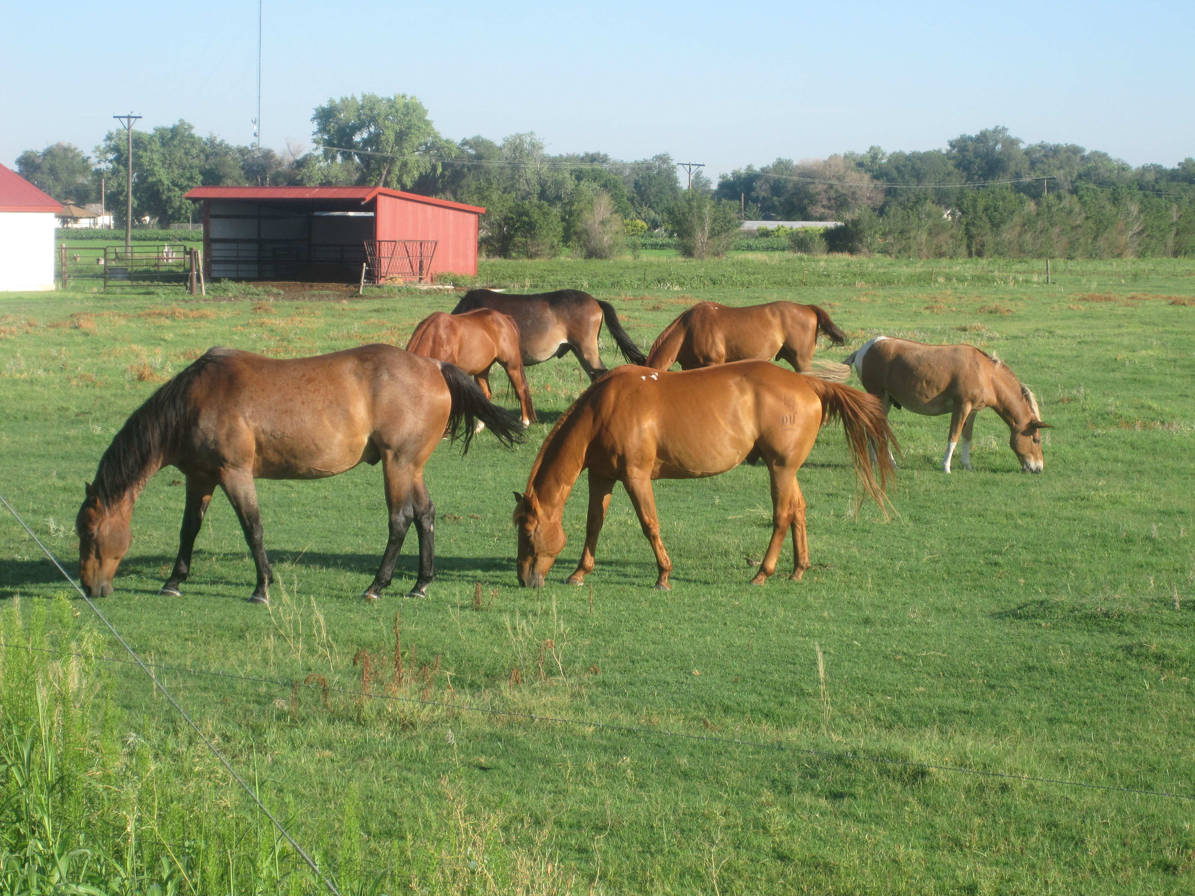 I took photo with Canon camera in Prowers County, CO.